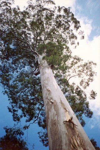 E. deanei at Blue Mountains National Park. Discovered in 1977 and measured in 1978 as 78 metres tall, measured by Dean Nicolle on December 17th, 2010 at 71 metres tall, and a diameter at breast height of 2.5 metres.